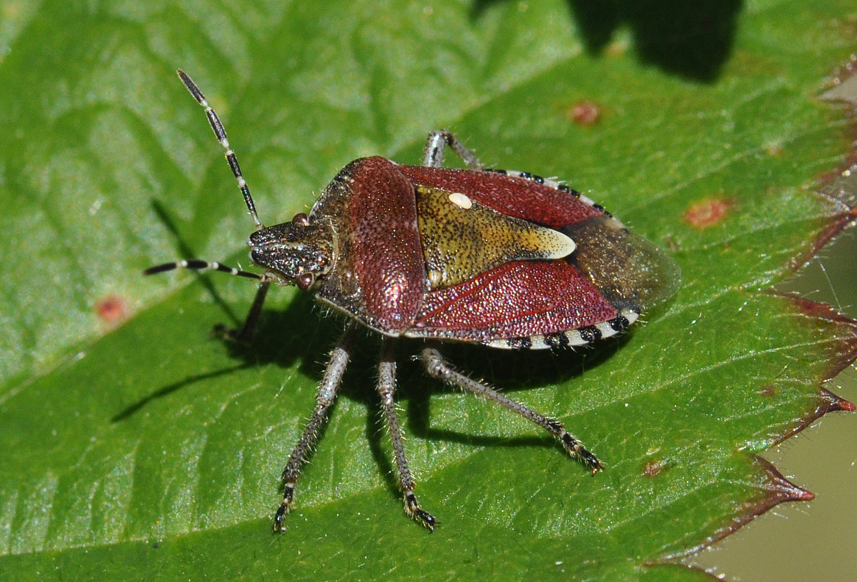 Dolycoris baccarum